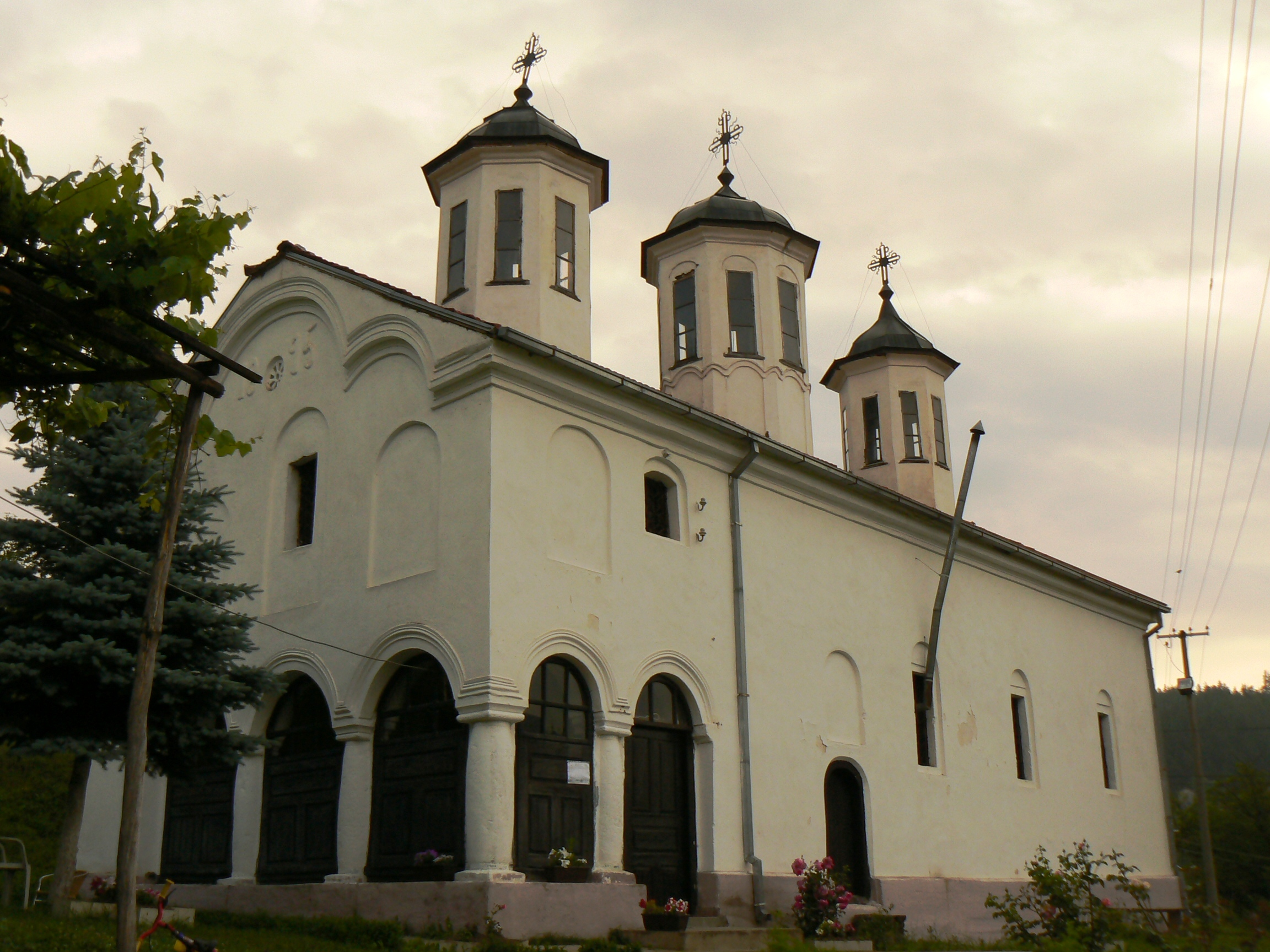 The church of Bosilegrad